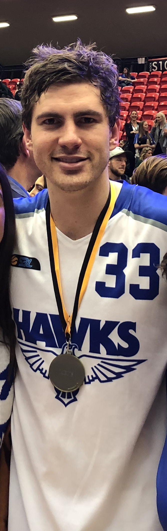 Ben Purser, following the Perry Lakes Hawks championship win